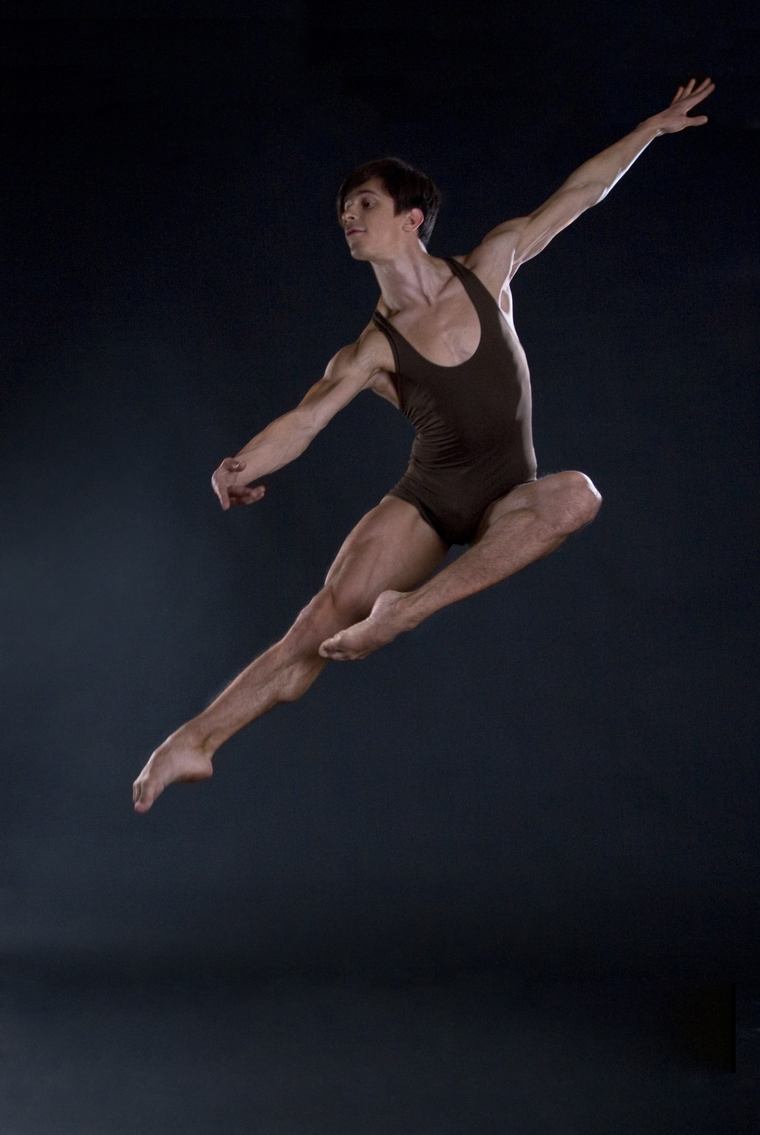 Alexey Torgunakov - The ballet dancer of the Bolshoi theater of Russia